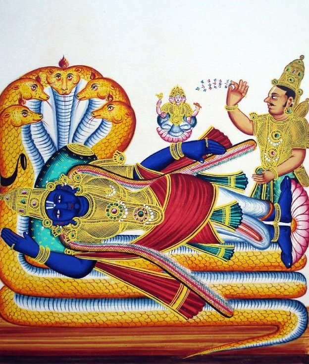 ". Ranganayaka, also known as Rangantha, reclines on the coils of the five-hooded serpent Shesha. His right arm is bent near his head, his left arm lies at his side and his feet rest on a lotus. Brahma sits on a lotus flower which floats in mid-air above Ranganayaka’s left hand. Brahma carries in his upper right hand the kamandalu (water vessel), in his upper left the pustaka (book); his lower right hand is in abhaya and the lower left in varada mudra. Vibhishana stands at Ranganayaka’s feet, a gada (mace) resting on his left shoulder, and with his right hand he throws flowers towards the reclining deity."